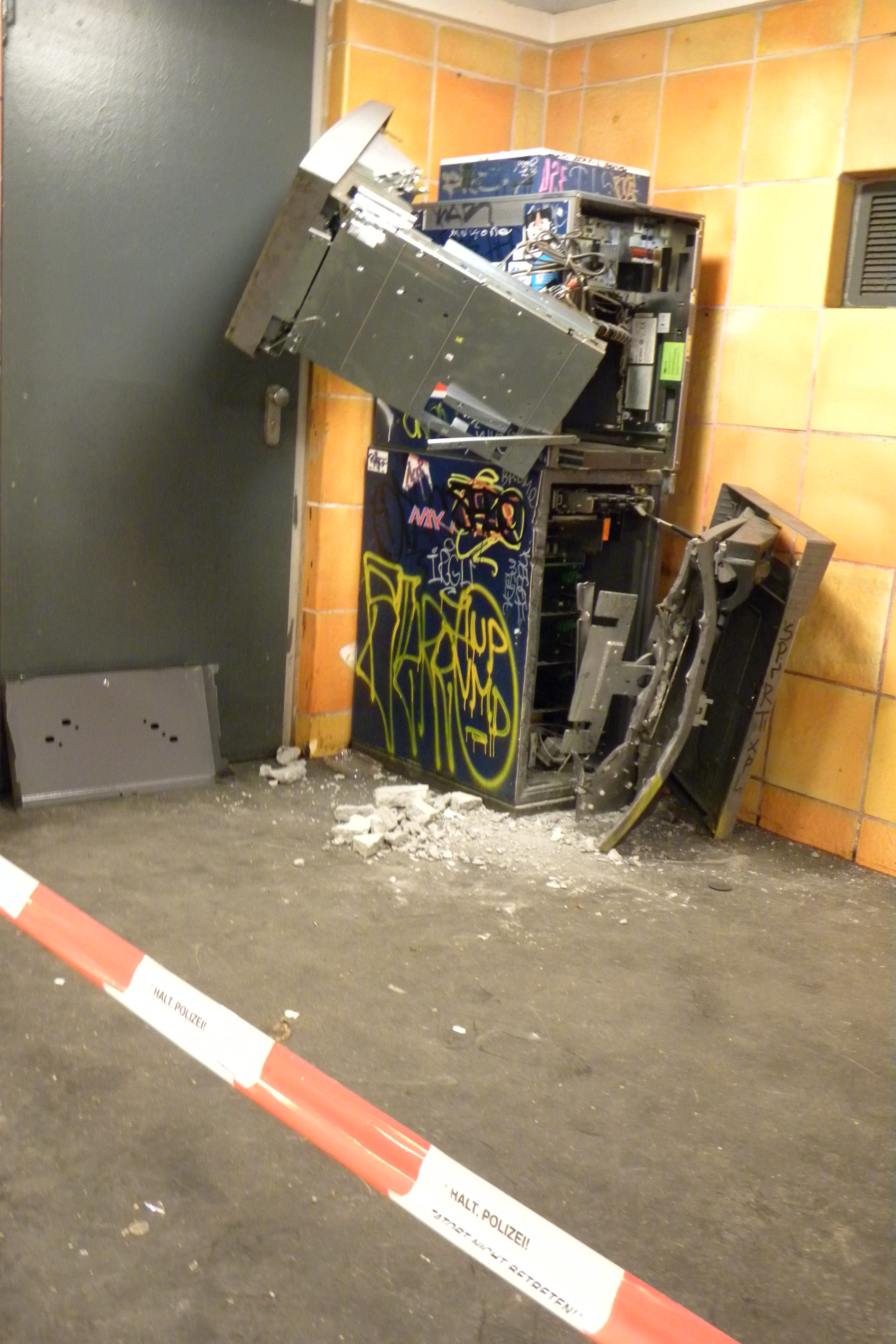 Attacked ATM in Berlin subway (Rosenthaler Platz).